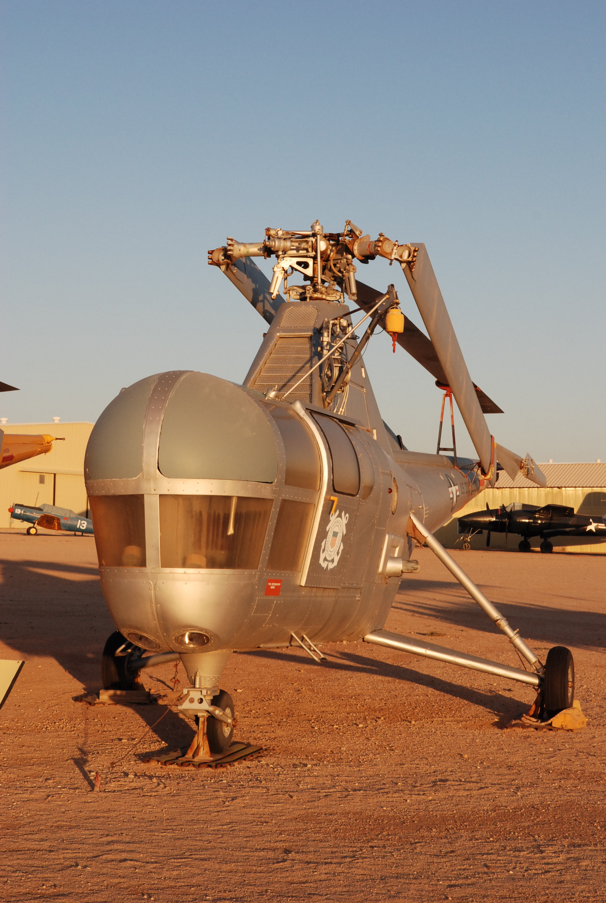 Pima Air & Space Museum - Tucson, AZ